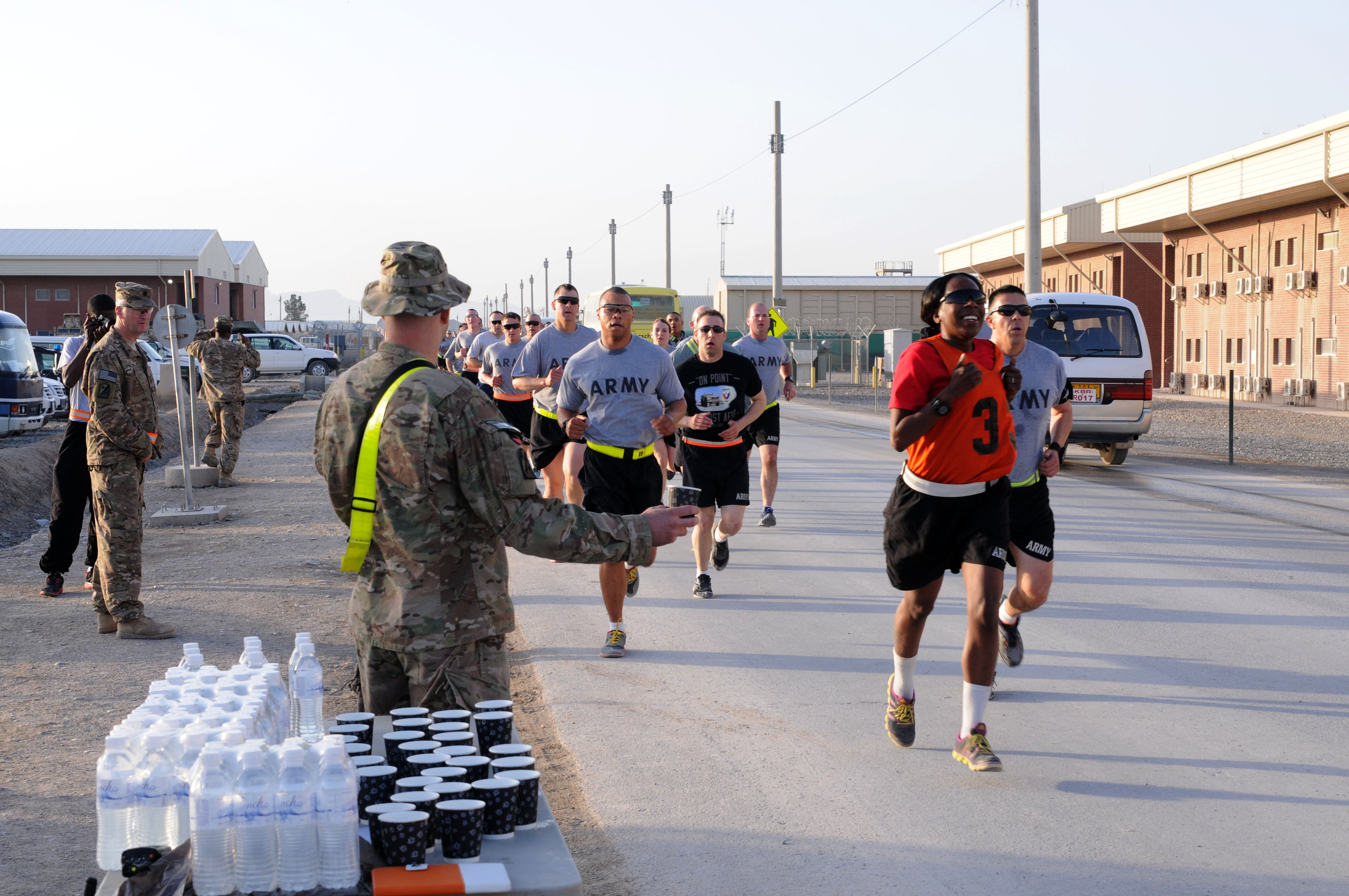 Soldiers from the Fort Bragg, N.C.-based 82nd Sustainment Brigade-U.S. Central Command Materiel Recovery Element provide water for runners in the Pat's Run Challenge hosted by the 82nd SB-CMRE at Kandahar Airfield, Afghanistan April 26. (U.S. Army photo by Sgt. 1st Class Jon Cupp, 82nd SB-CMRE Public Affairs)